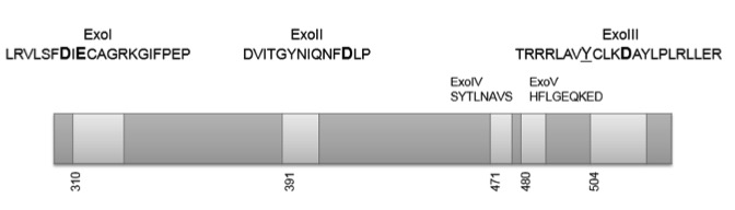 exo domain